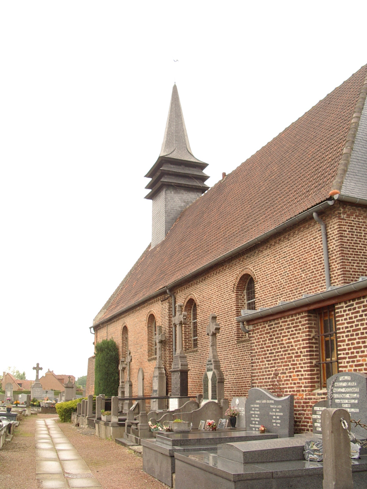 Eglise Saint Christophe Carnin